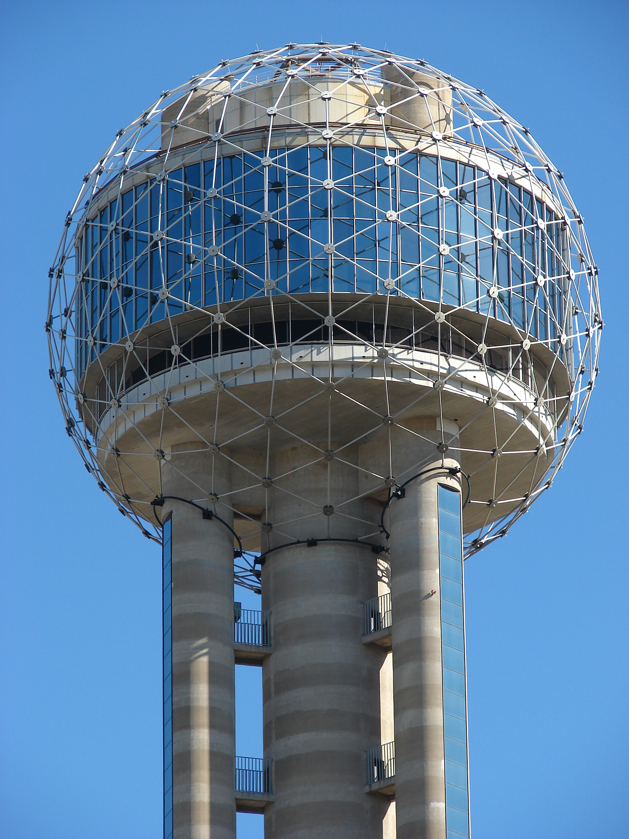 Reunion Tower in Dallas, Texas.